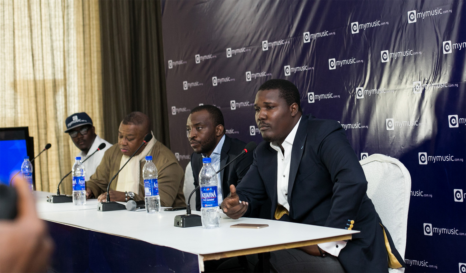 This is a picture of the launch event of .ng held at the Oriental Hotel, Lagos on the 3rd of June 2015